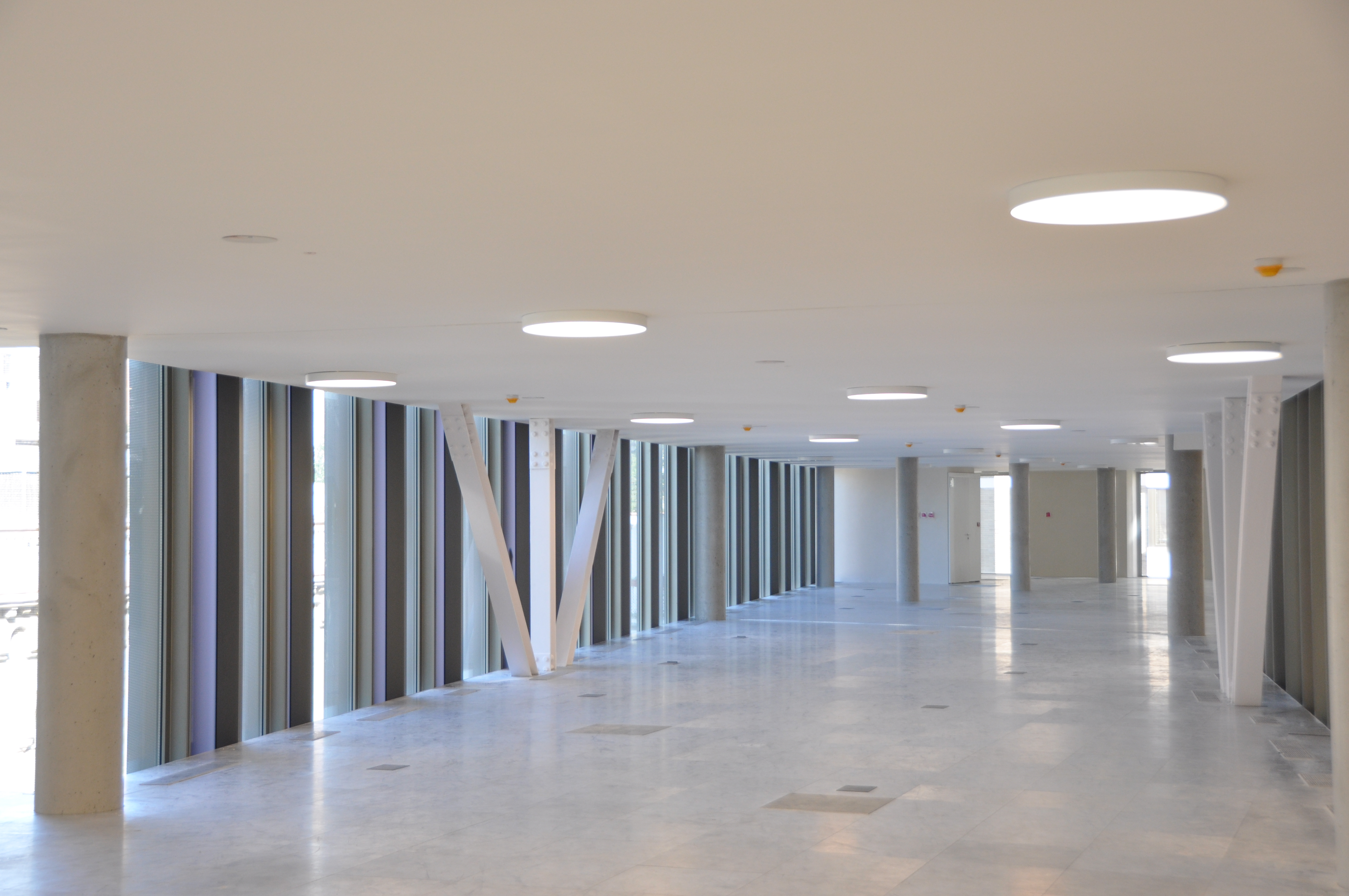 Barcelona (Kennedy square). La Rotonda. Inner rooms built in 2010-2016. Alfredo Arribas, architect.